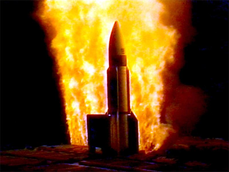 The Pacific Ocean, Jan. 25, 2001 — The Aegis cruiser USS Lake Erie (CG 70) launches a Standard Missile III as part of an Aegis Intercept Flight Test Round (FTR-1A) mission at the Pacific Missile range. The test demonstrates third stage airframe stability and control. The SM-3 is the U.S. Navy's new exo-atmospheric missile developed to counter Theater Ballistic Missile threats outside the atmosphere. The Pacific Missile range is headquartered in the mid-Pacific on the island of Kauai, Hi. Jan. 25, 2001